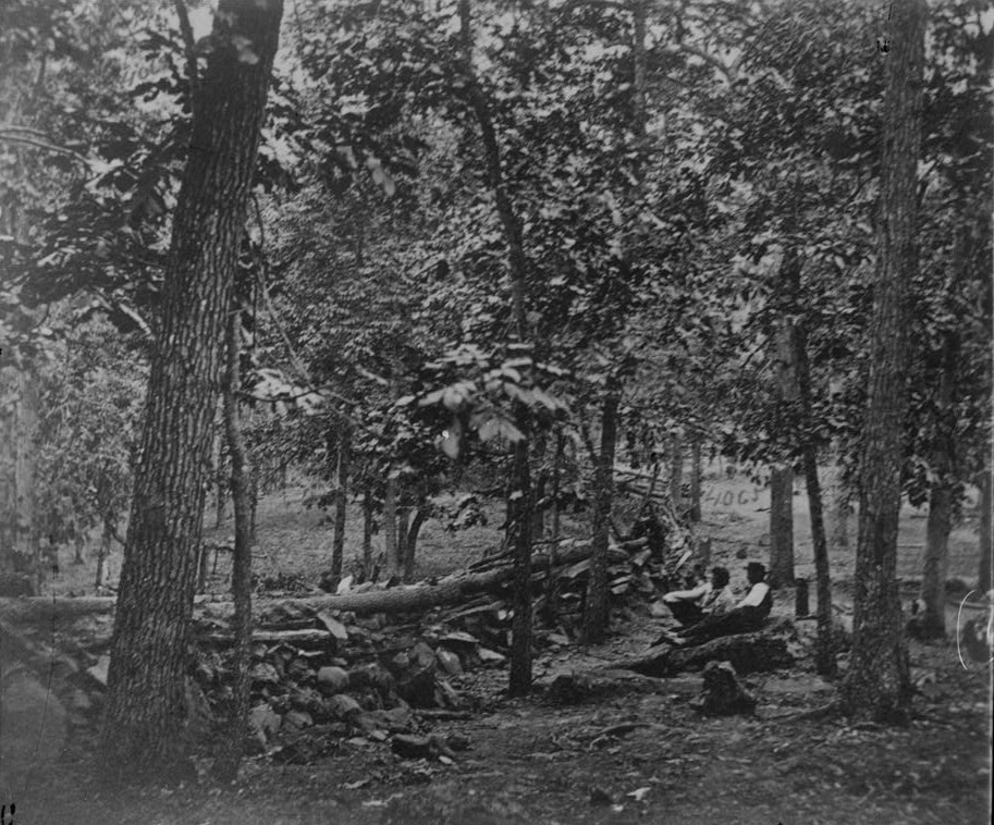 Gettysburg, Pennsylvania. Federal breastworks in the woods on Culp's Hill